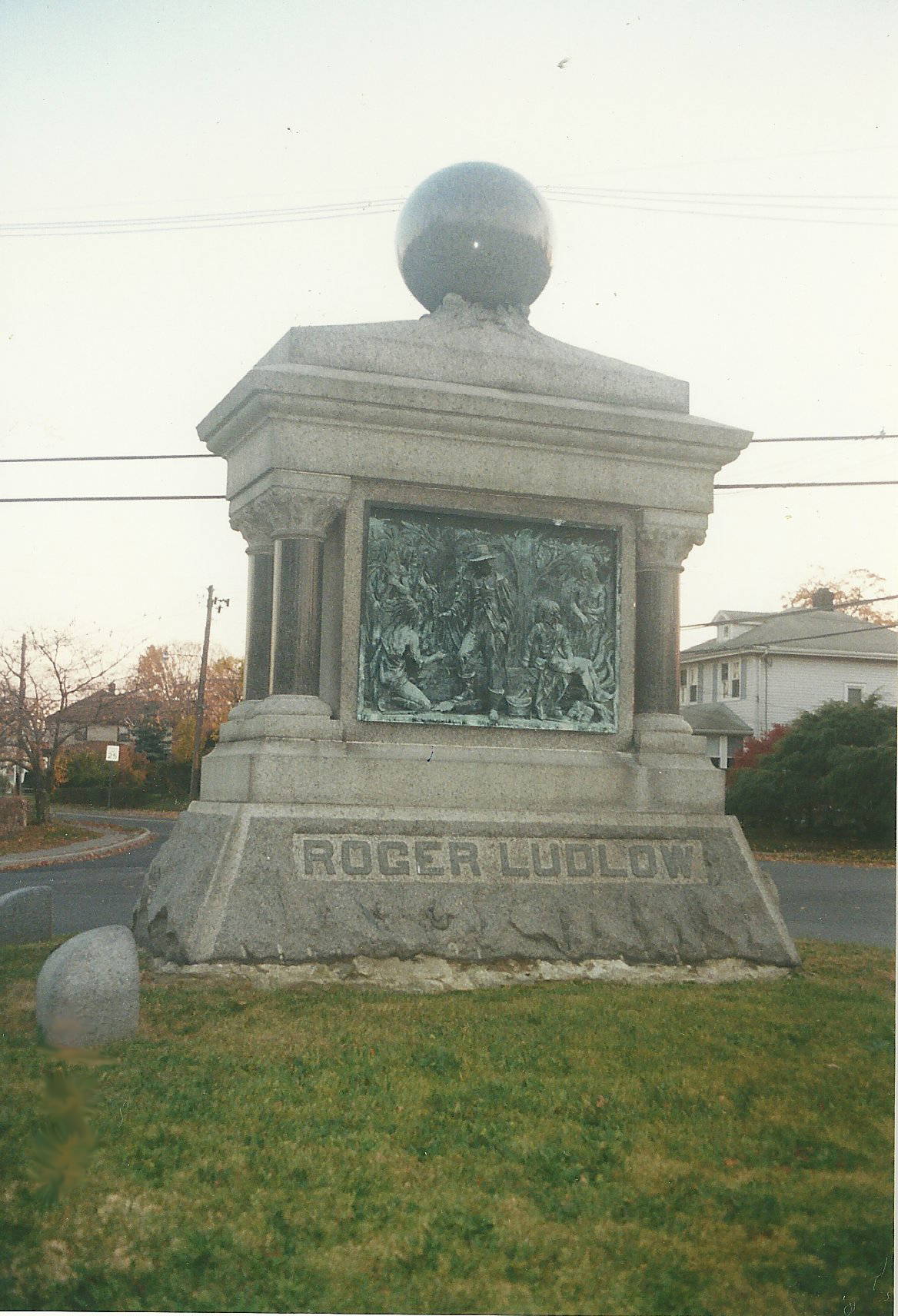 The Roger Ludlow Monument located in the traffic circle at the confluence of Gregory Boulevard and Marvin Street in East Norwalk. Ludlow was the founder of first European settlement in Norwalk. The work was dedicated in 1895.